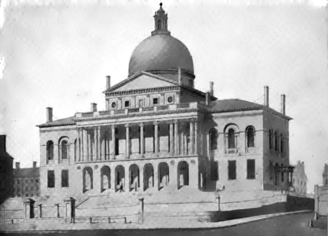 1827 drawing of the Massachusetts State House by Alexander Jackson Davis.